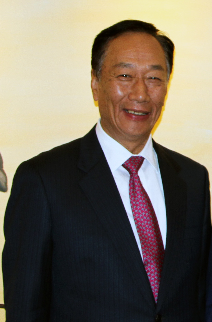 Terry Gou, Chairman of Foxconn with Ambassador Terry Branstad on December 6, 2017